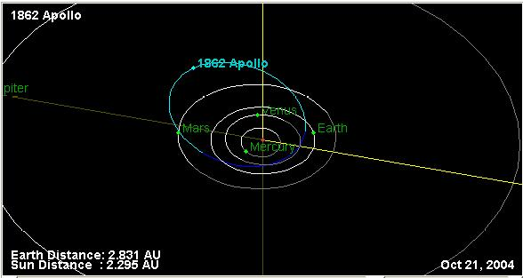 Screen capture of Asteroid 1862 Apollo (1932 HA) orbit